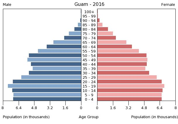 The population pyramid of Guam illustrates the age and sex structure of population and may provide insights about political and social stability, as well as economic development. The population is distributed along the horizontal axis, with males shown on the left and females on the right. The male and female populations are broken down into 5-year age groups represented as horizontal bars along the vertical axis, with the youngest age groups at the bottom and the oldest at the top. The shape of the population pyramid gradually evolves over time based on fertility, mortality, and international migration trends.